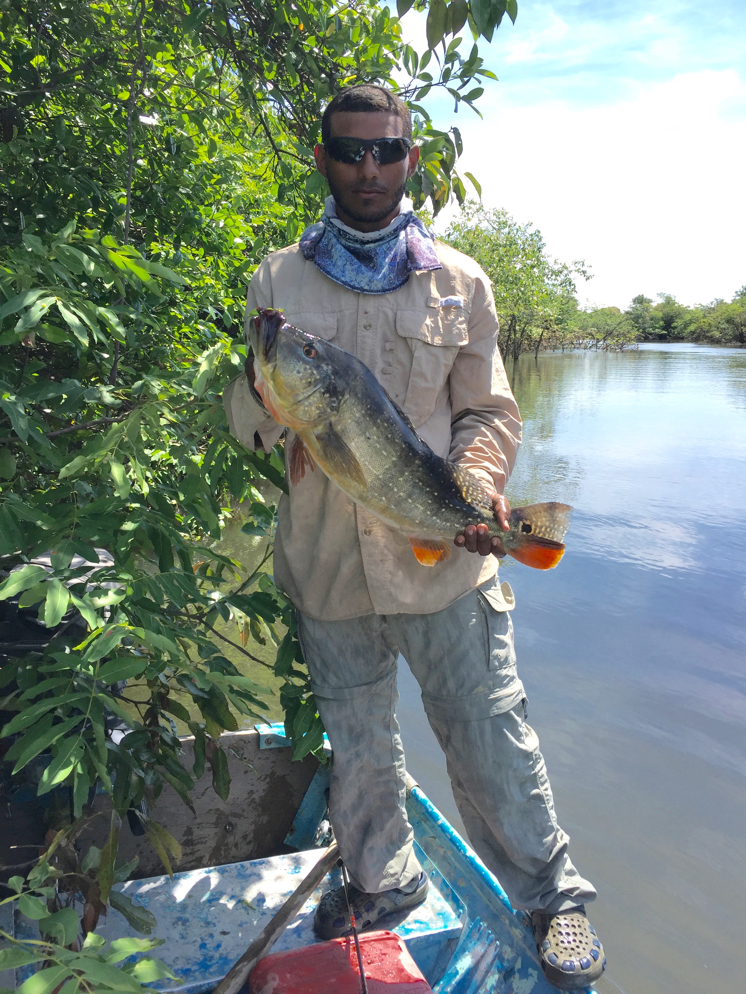 Specked Peacock Bass from the Cinaruco River